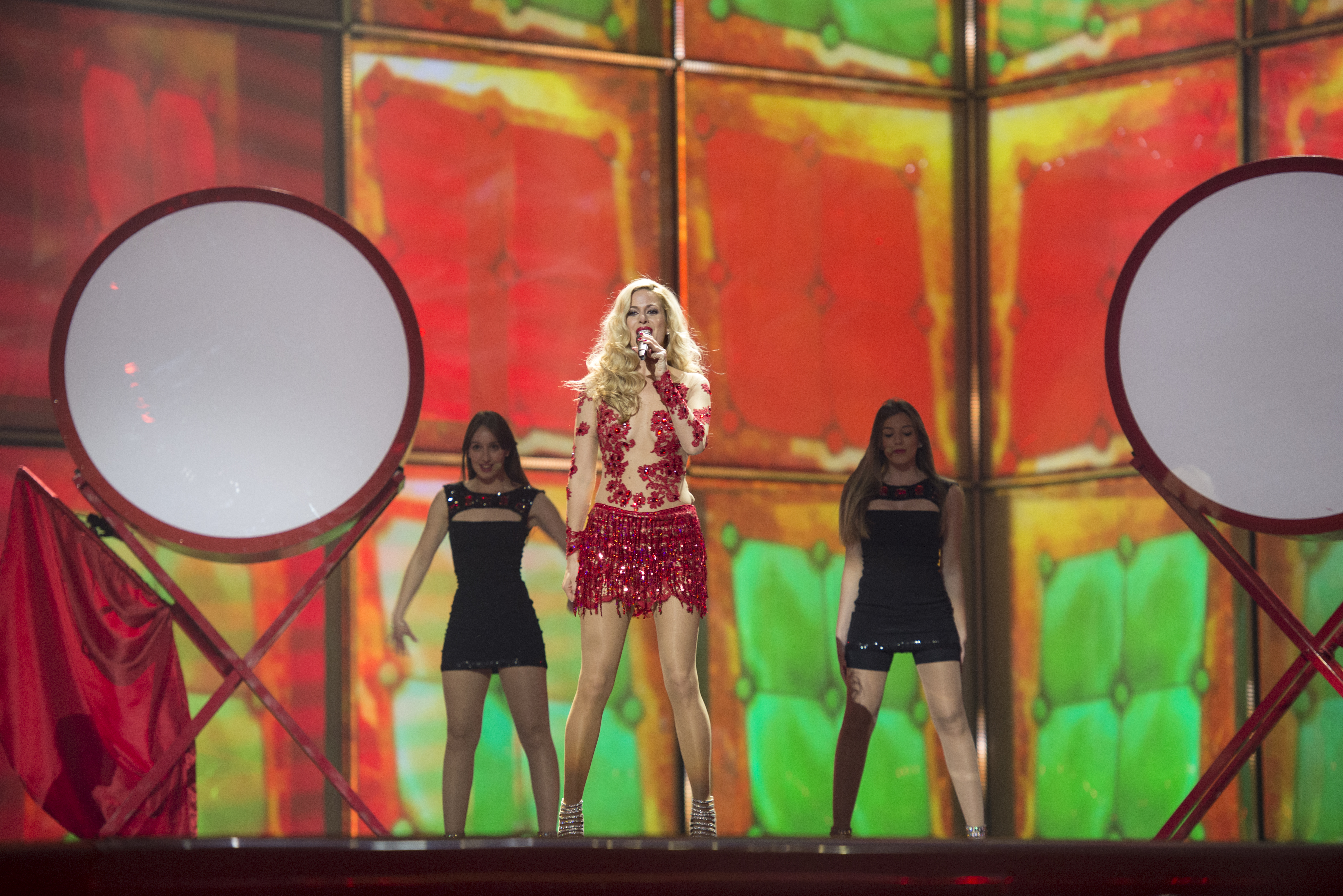 Suzy representing Portugal with the song "Quero ser tua" during the first dress rehearsal of the first semi final of the Eurovision Song Contest 2014 Copenhagen. (Help translate this text)